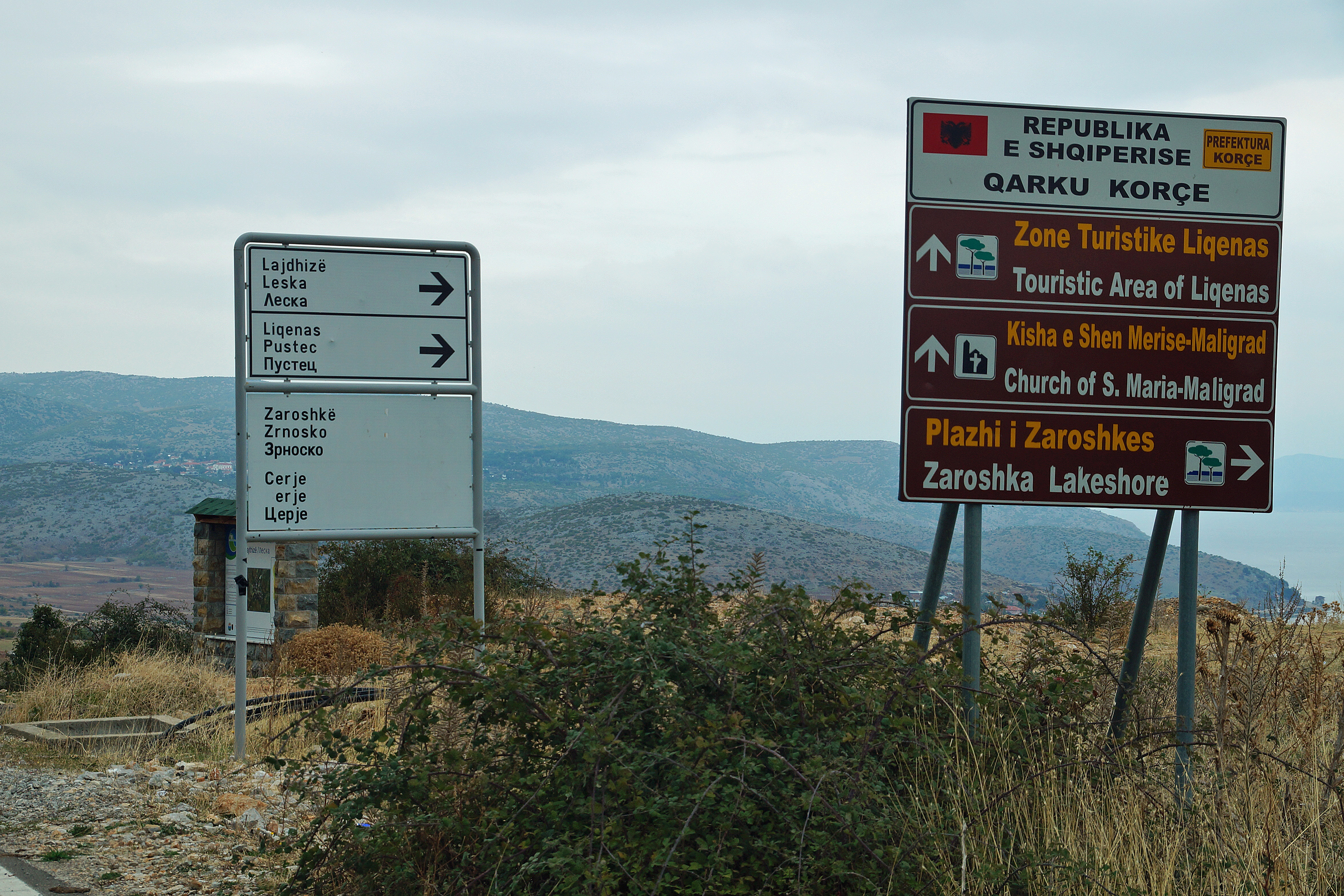 Pustec/Liqenas, Albania: a bilingual directional road sign in Albanian and Macedonian (in latin and cyrilic alphabet) and a bilingual informational road sign for tourists in Albanian and English